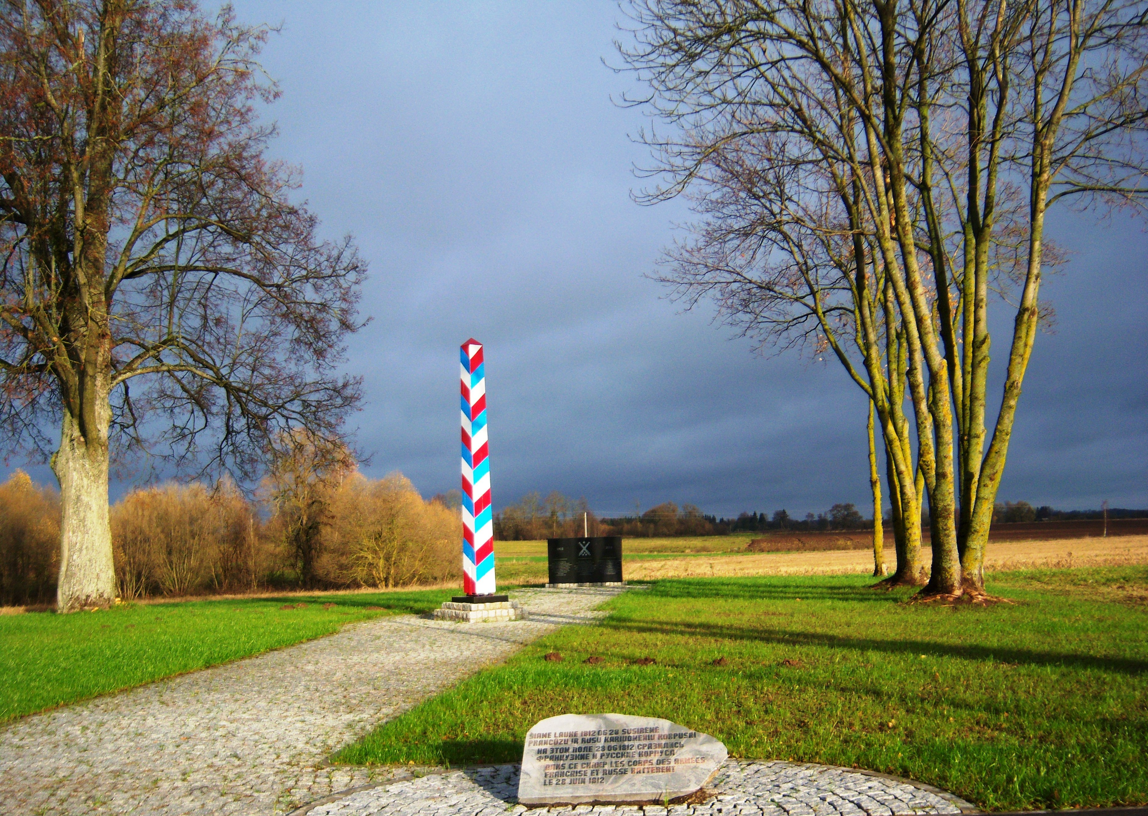 Memorial obelisk of French-Russian War battle by Deltuva, Ukmergė District, Lithuania